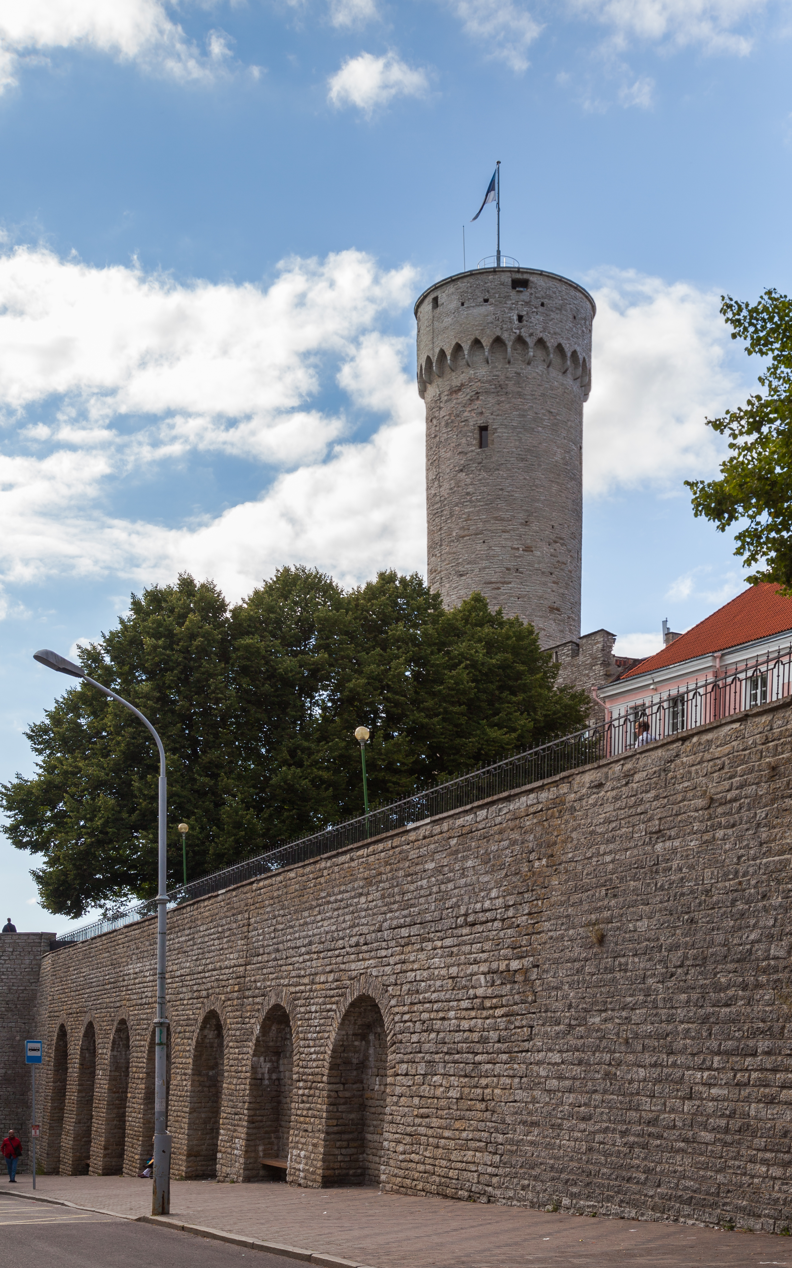 Pikk Hermann, Toompea castle, Tallinn, Estonia